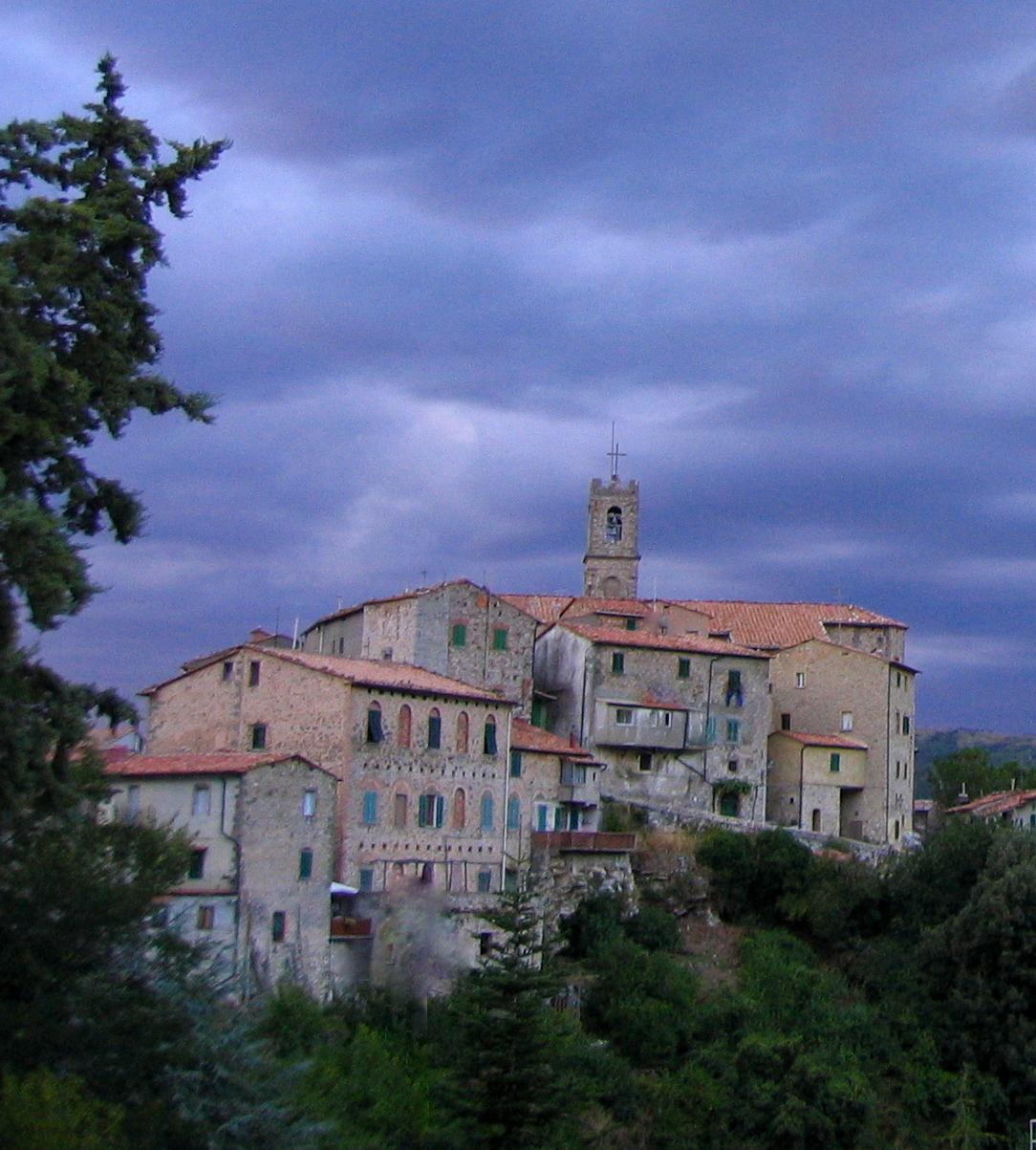 Sasso Pisano